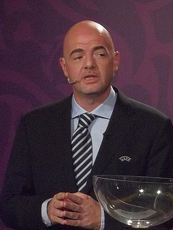 Gianni Infantino during UEFA EURO 2012 qualifying play-offs draw, that took place in Sheraton Hotel in Cracow.